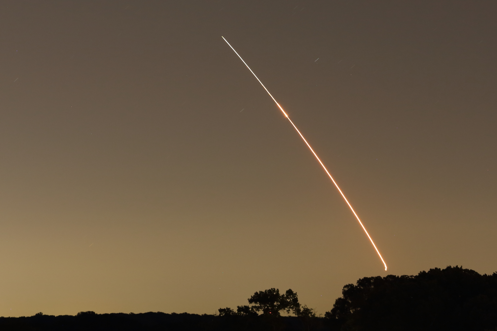 Long exposure photograph of the launch of a Minotaur V carrying the Moon-bound LADEE spacecraft. This photograph was taken from Vienna, Virginia.